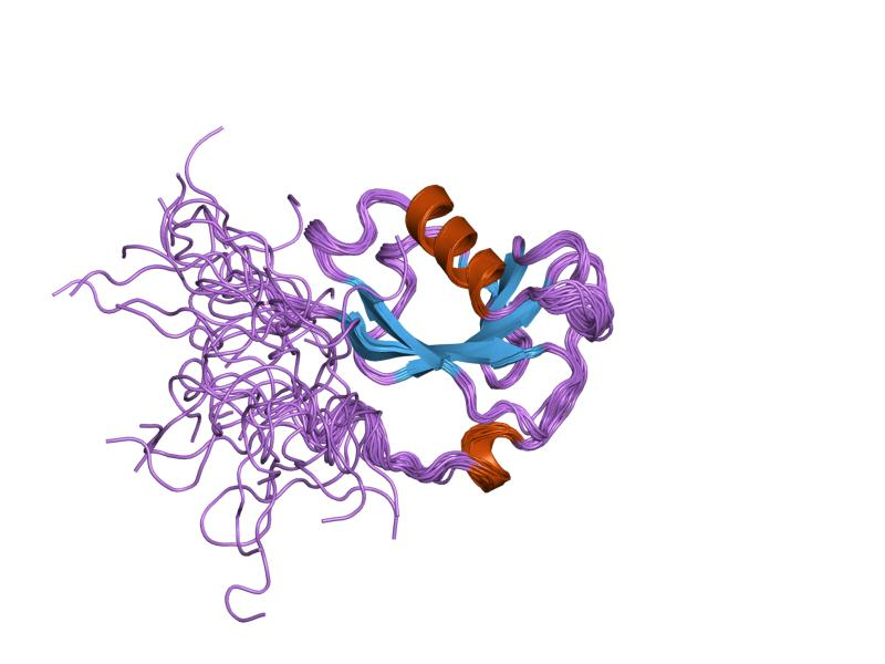 Cartoon representation of the molecular structure of protein registered with 1uf0 code.